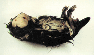 Mercury caused birth defects on water fowl.